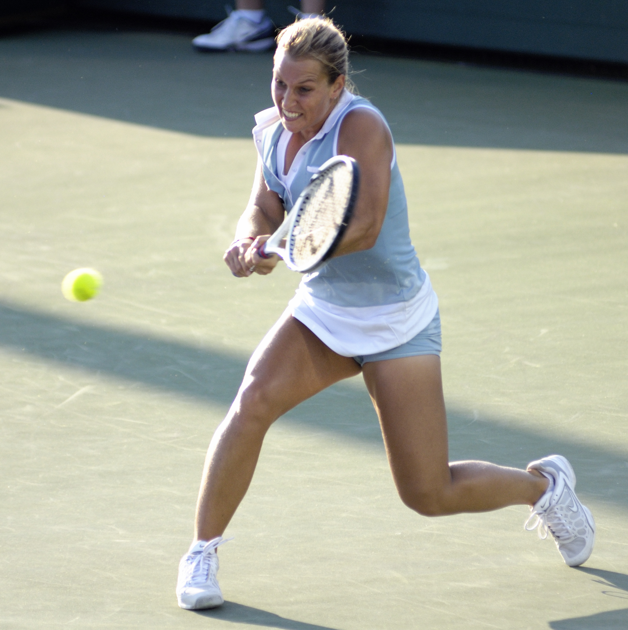 Dominika Cibulková at the 2012 Sony Ericsson Open